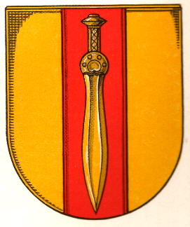 Coat of Arms of Nordstemmen, Germany